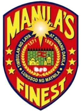 Badge of the Manila Police District (MPD)